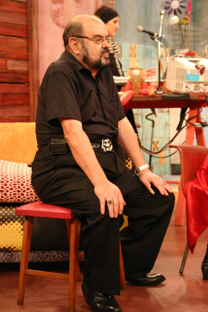 Brazilian filmmaker Zé do Caixão in Programa Novo, aired by the public television broadcaster TV Cultura.